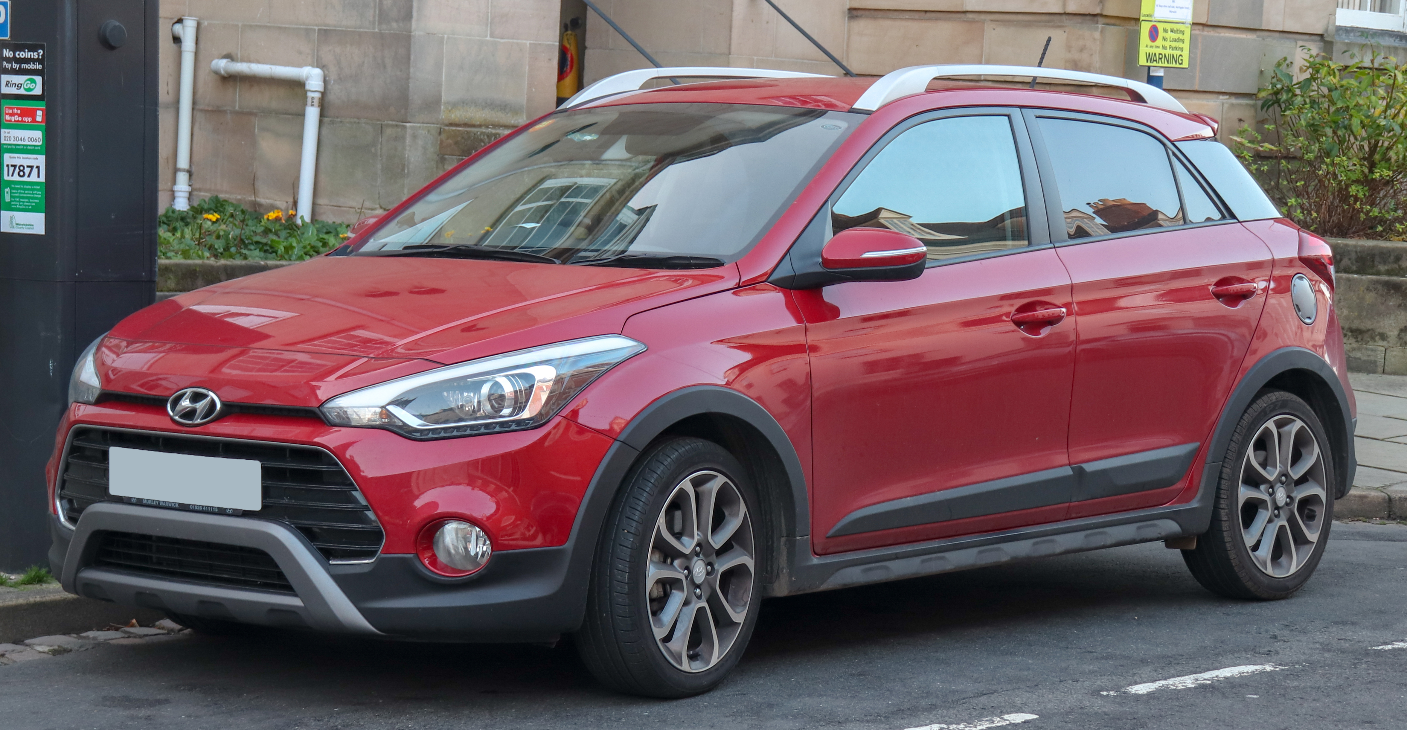 2017 Hyundai i20 Active T-GDi 1.0 Front Taken in Warwick